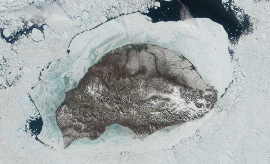 Satellite picture of Wrangel Island